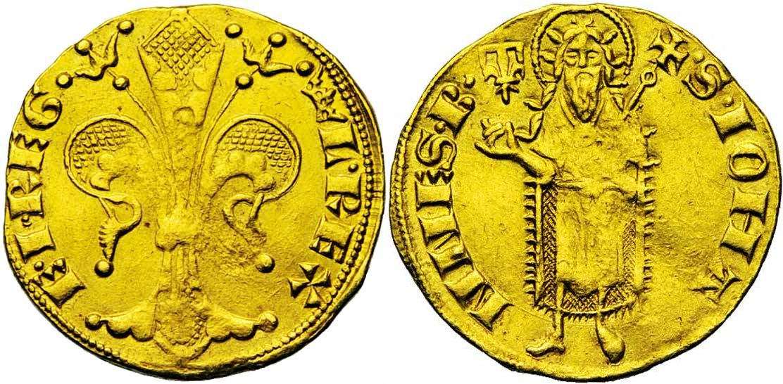 Coin of Queen Joan I and King Louis I of Naples as Countess and Count of Provence